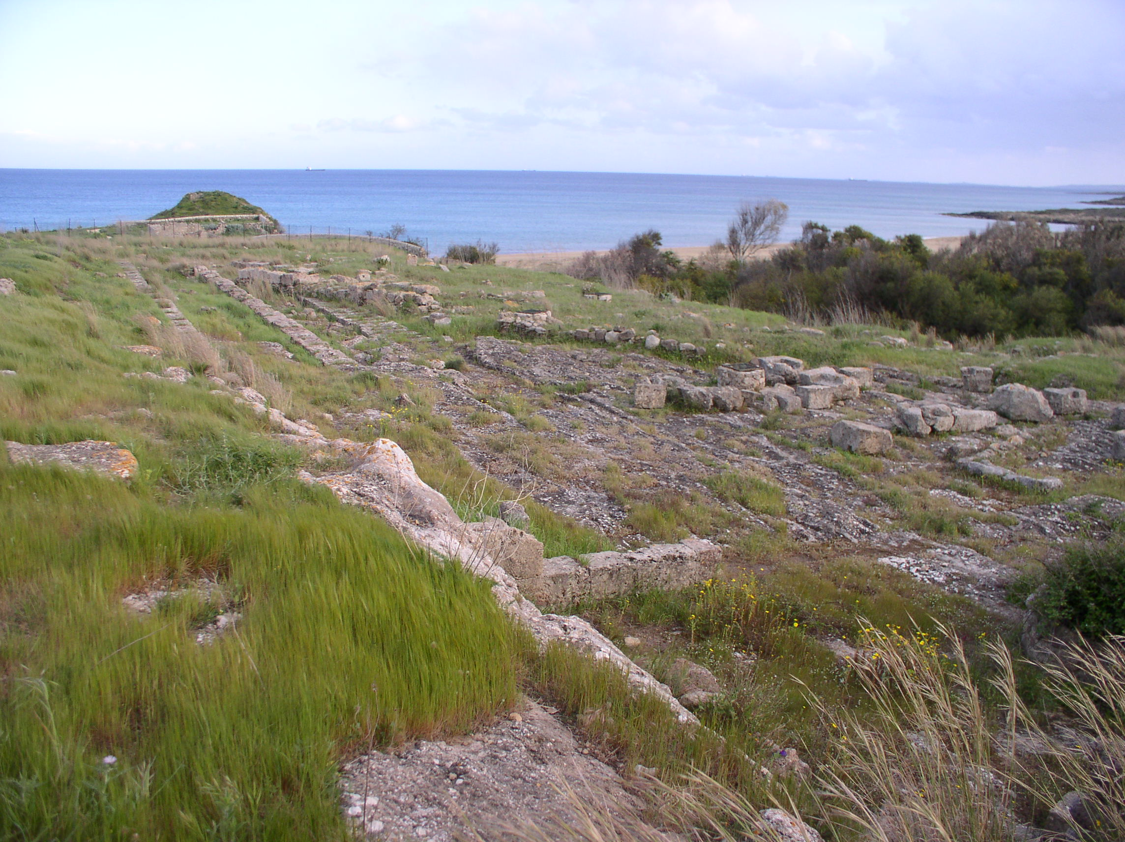 Ruins of the Greek Colony of Eloro, near Noto, Sicily.